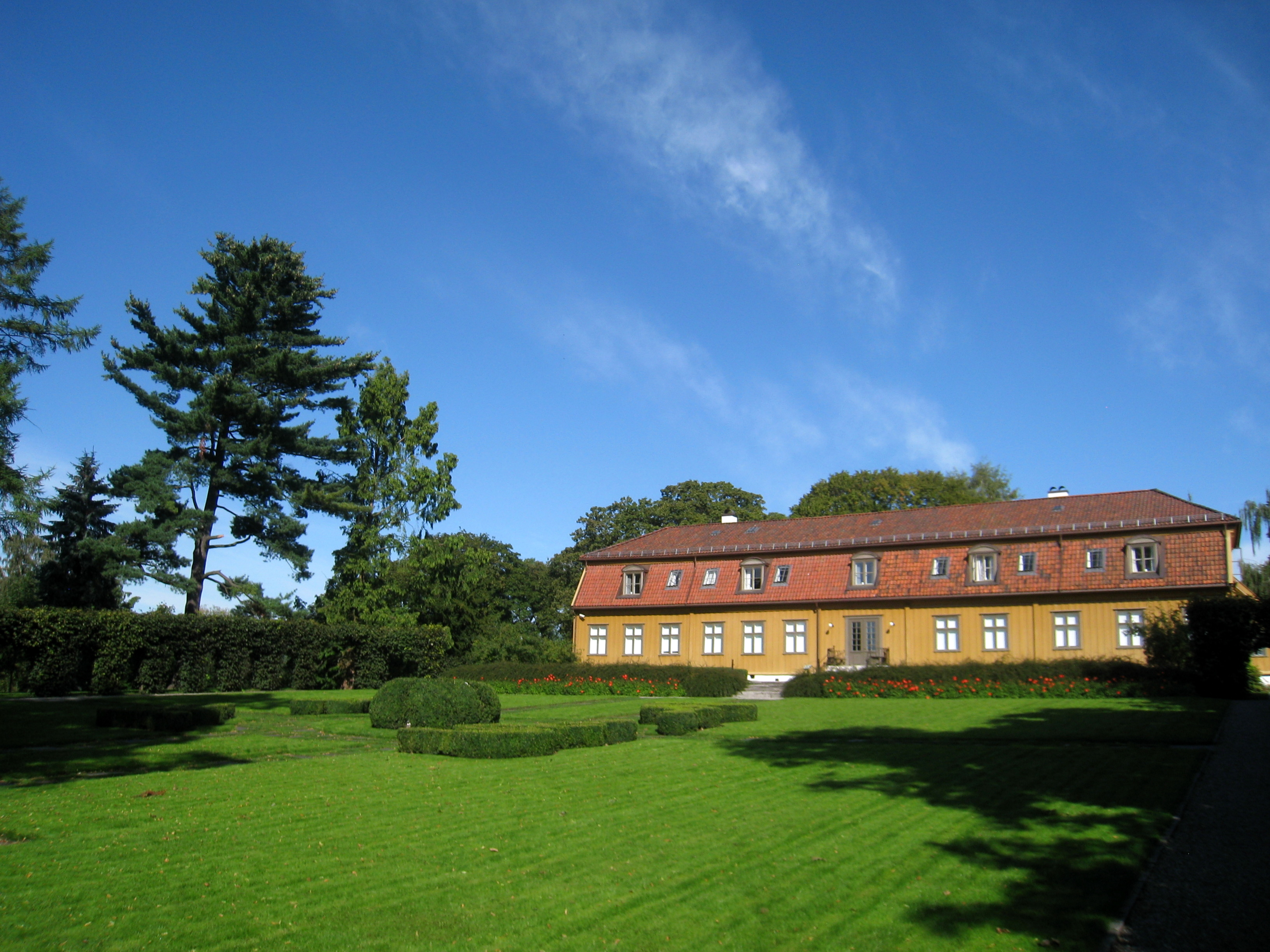 Tøyen Manor House in the Oslo Botanical Garden, Oslo, Norway.